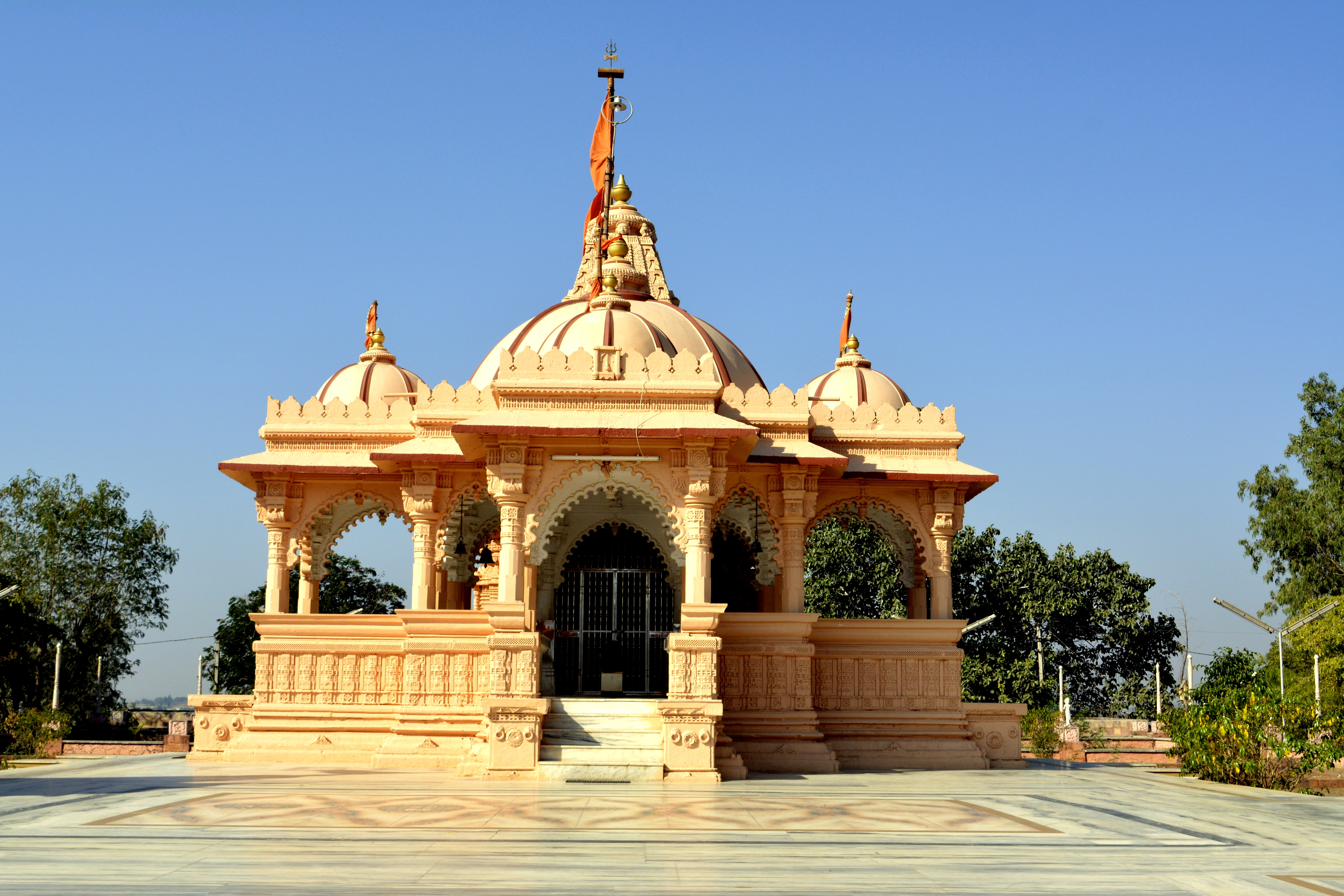 Akshygadh Mandir, Keshod This is a temple of Load Shiva.It is having a pleasant environment around it.